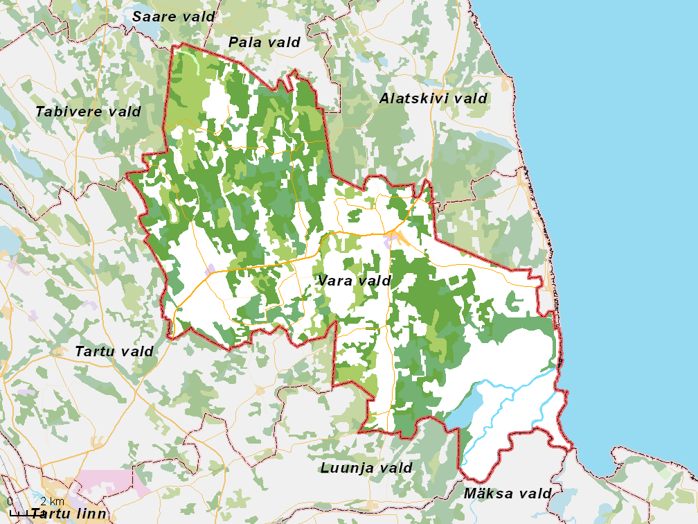 Map of municipality in Estonia